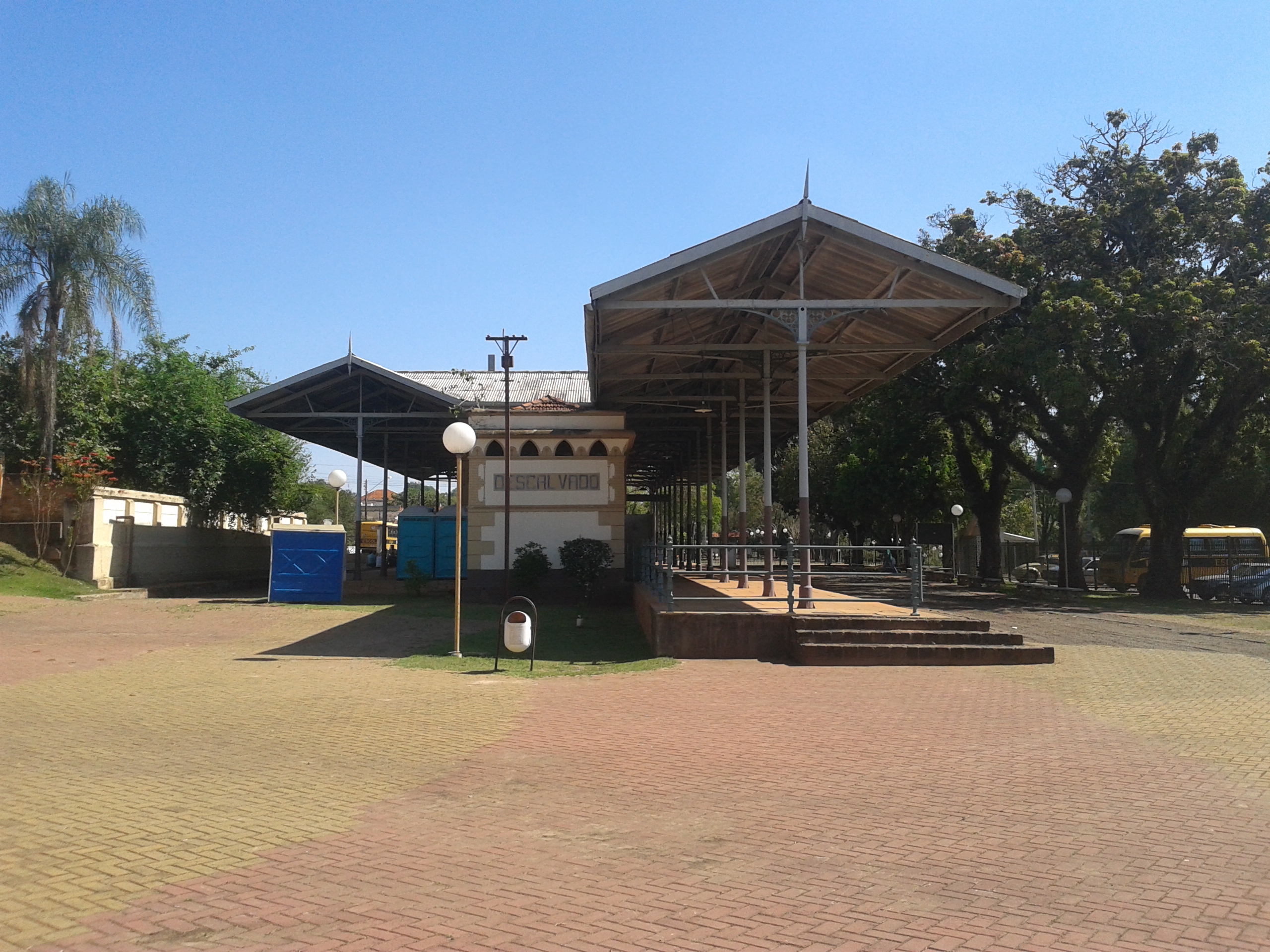 Praça João Marchetti, localizada na antiga estação ferroviária da cidade de Descalvado, interior de São Paulo.